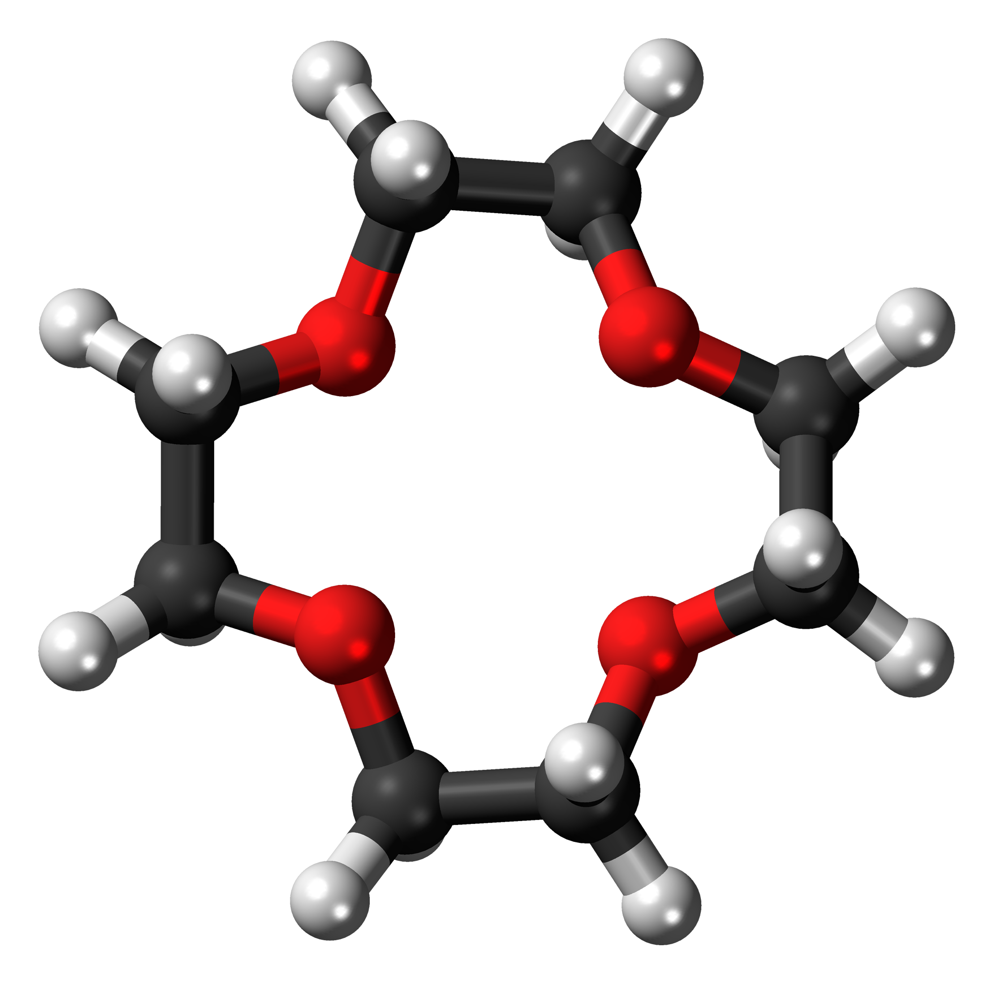 Ball-and-stick model of the 12-crown-4 molecule, a crown ether. Colour code: Black: Carbon, C White: Hydrogen, H Red: Oxygen, O